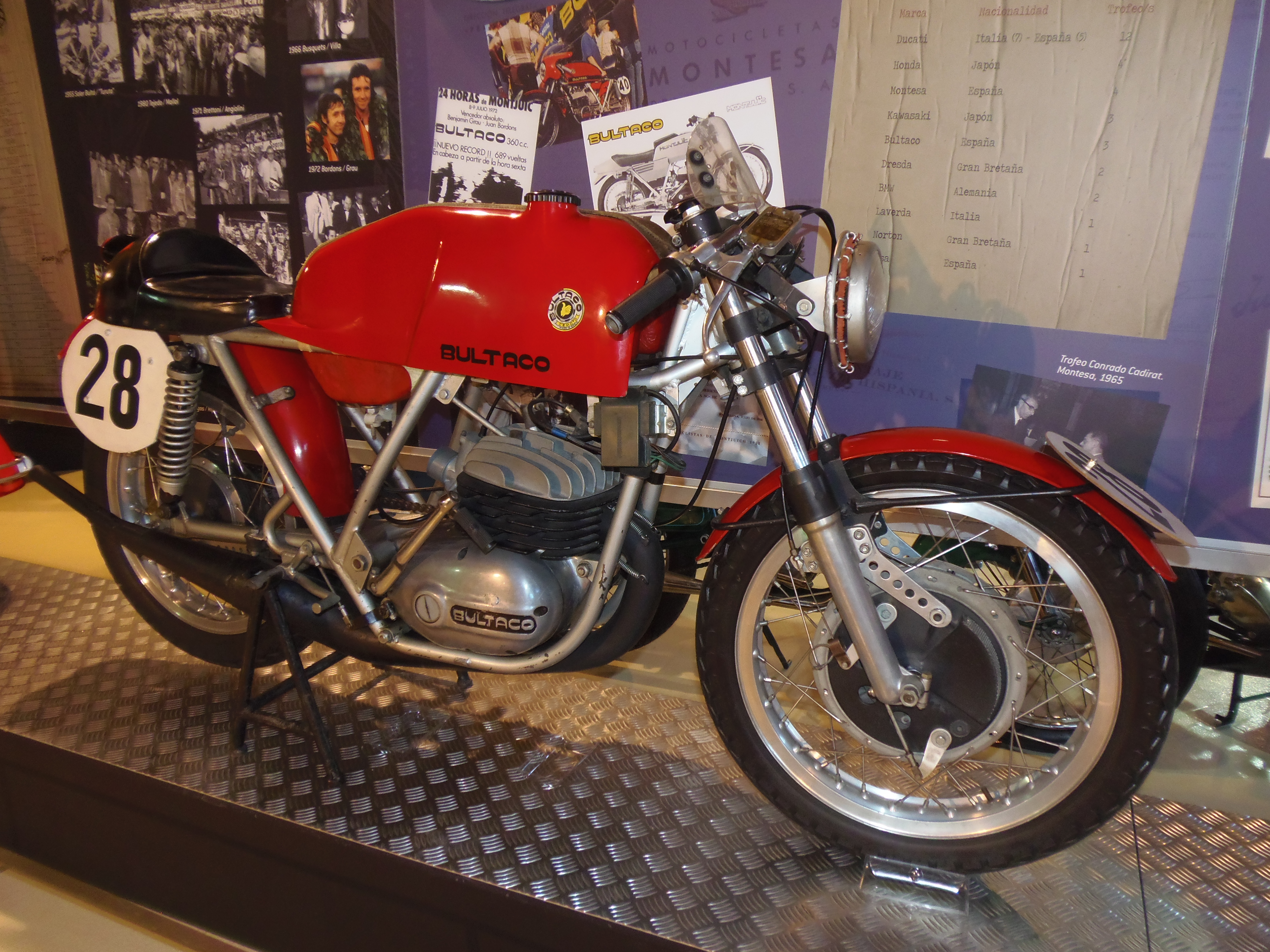 Bultaco 360cc. On this bike, Salvador Cañellas and Carles Rocamora won the XV 24 Hours of Montjuïc, on 1969